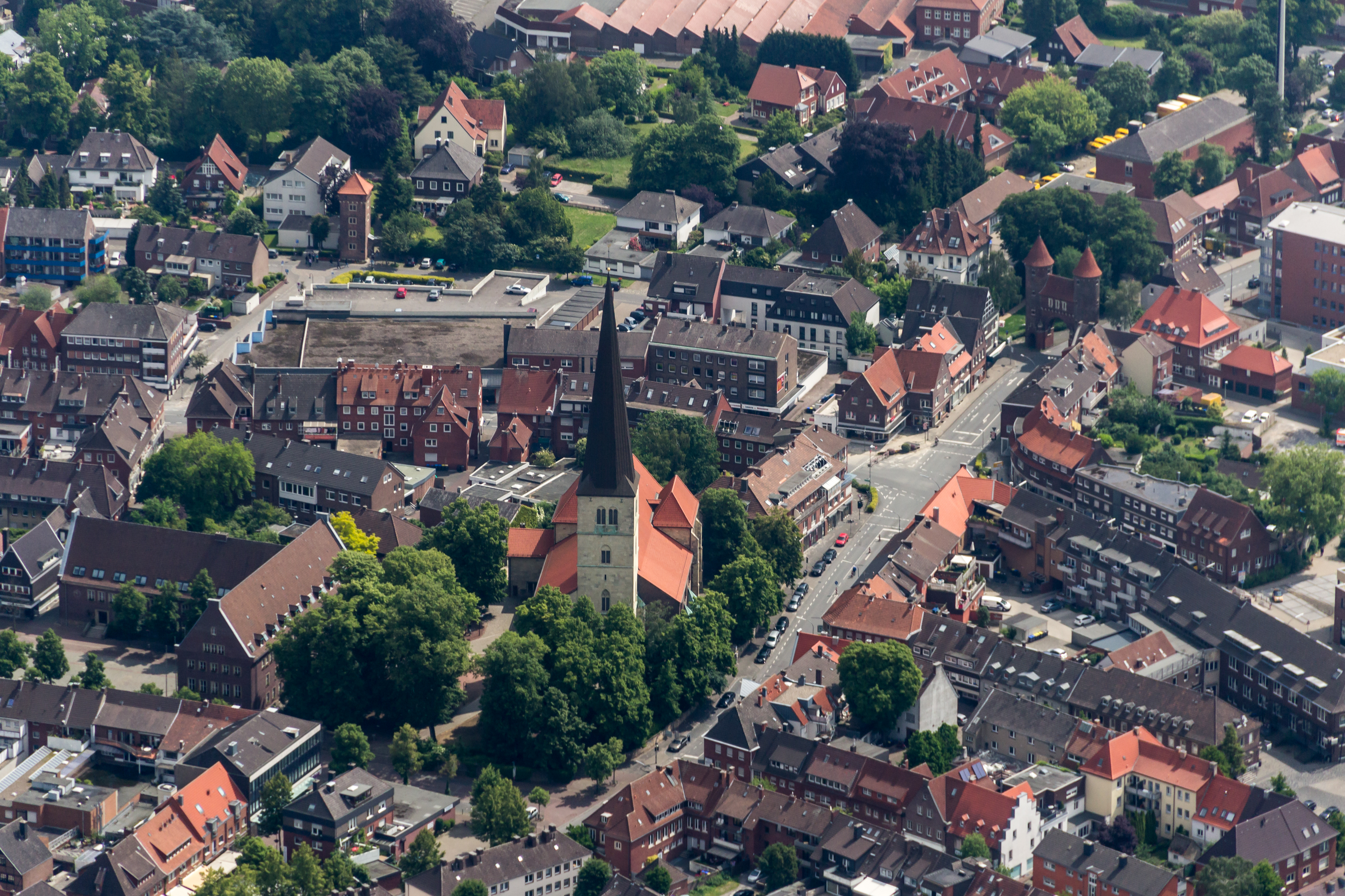 Dülmen, North Rhine-Westphalia, Germany This image shows a heritage building in Germany, located in the North Rhine-Westphalian city Dülmen (no. 15). This image shows a heritage building in Germany, located in the North Rhine-Westphalian city Dülmen (no. 18). This image shows a heritage building in Germany, located in the North Rhine-Westphalian city Dülmen (no. 126). This image shows a heritage building in Germany, located in the North Rhine-Westphalian city Dülmen (no. 1).